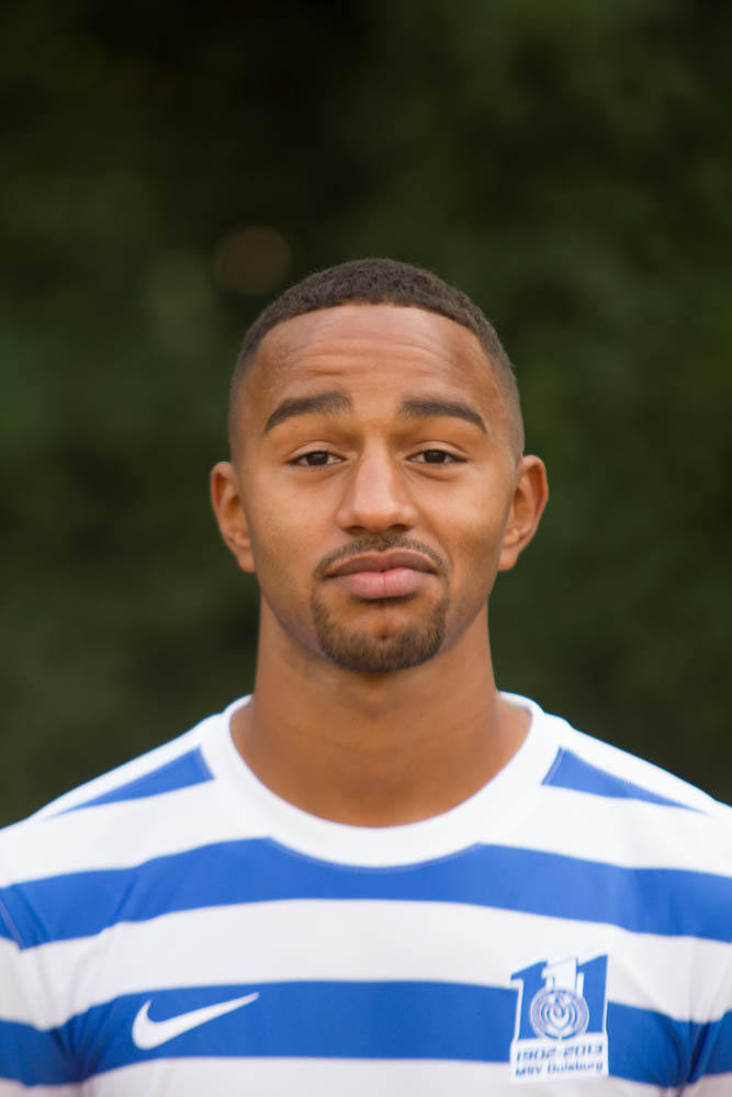 German-Senegalese fooball player Babacar M'Bengue, MSV Duisburg